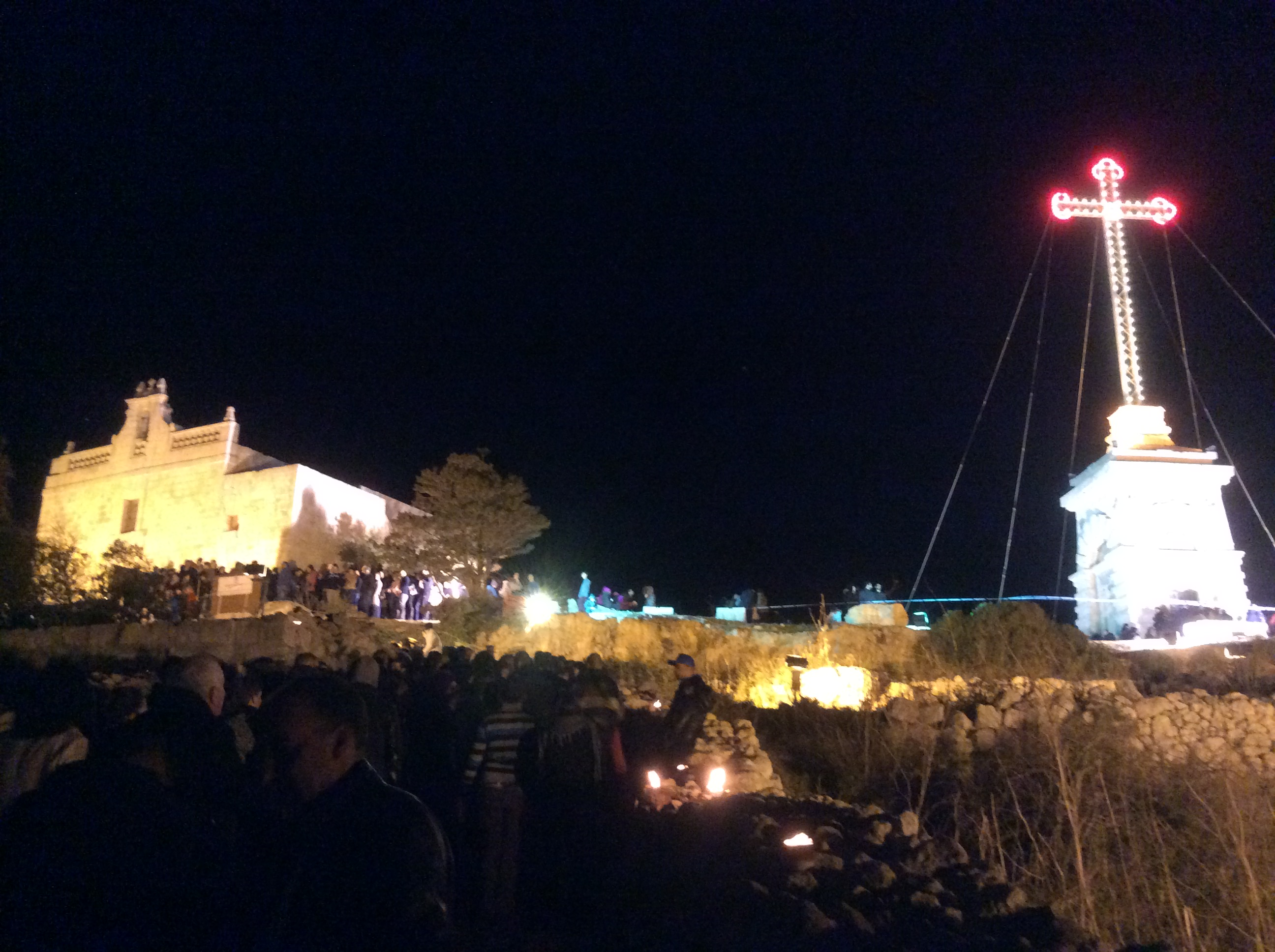 Laferla Cross This media is about Maltese cultural property with inventory number 02166.